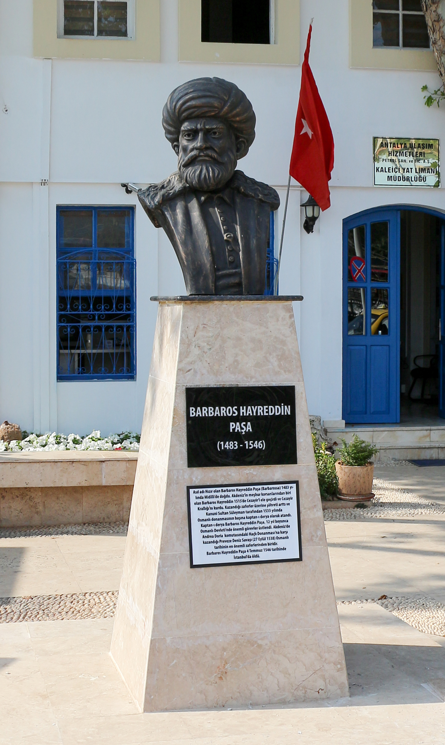 Statue of Barbarossa Hayreddin Pasha in Antalya, Turkey